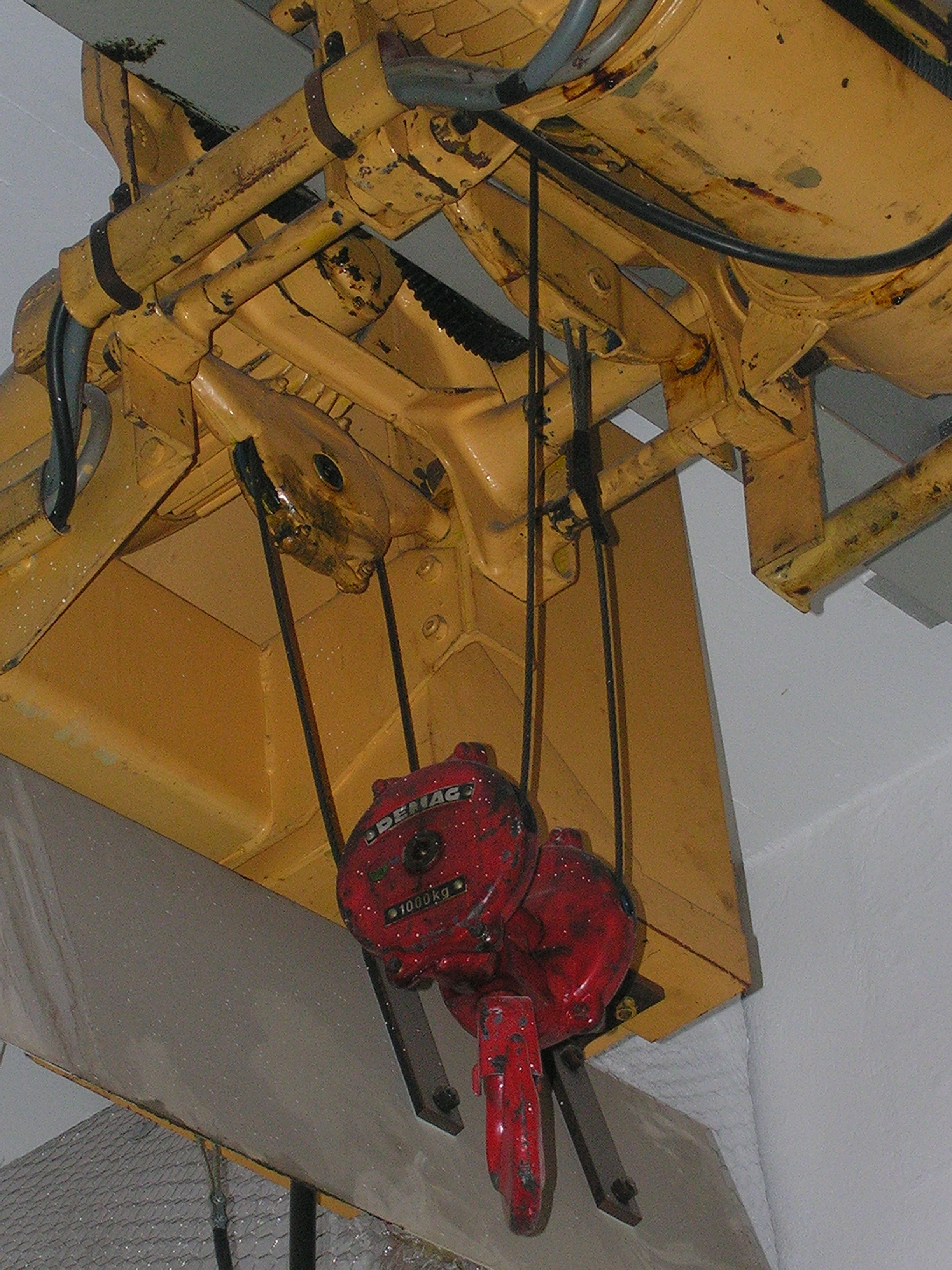 Movable pulley on a Demag Hoist